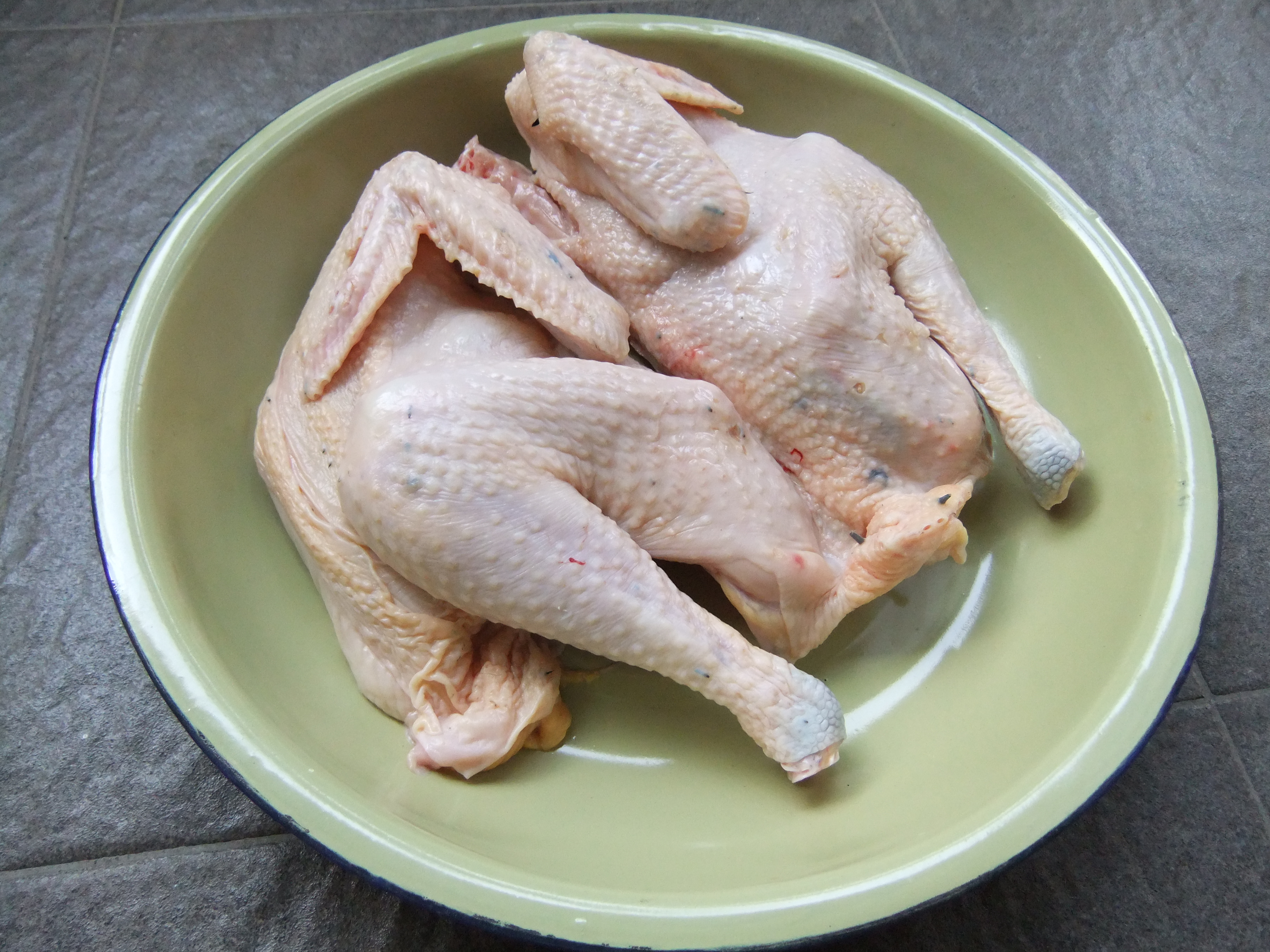 Free range chicken